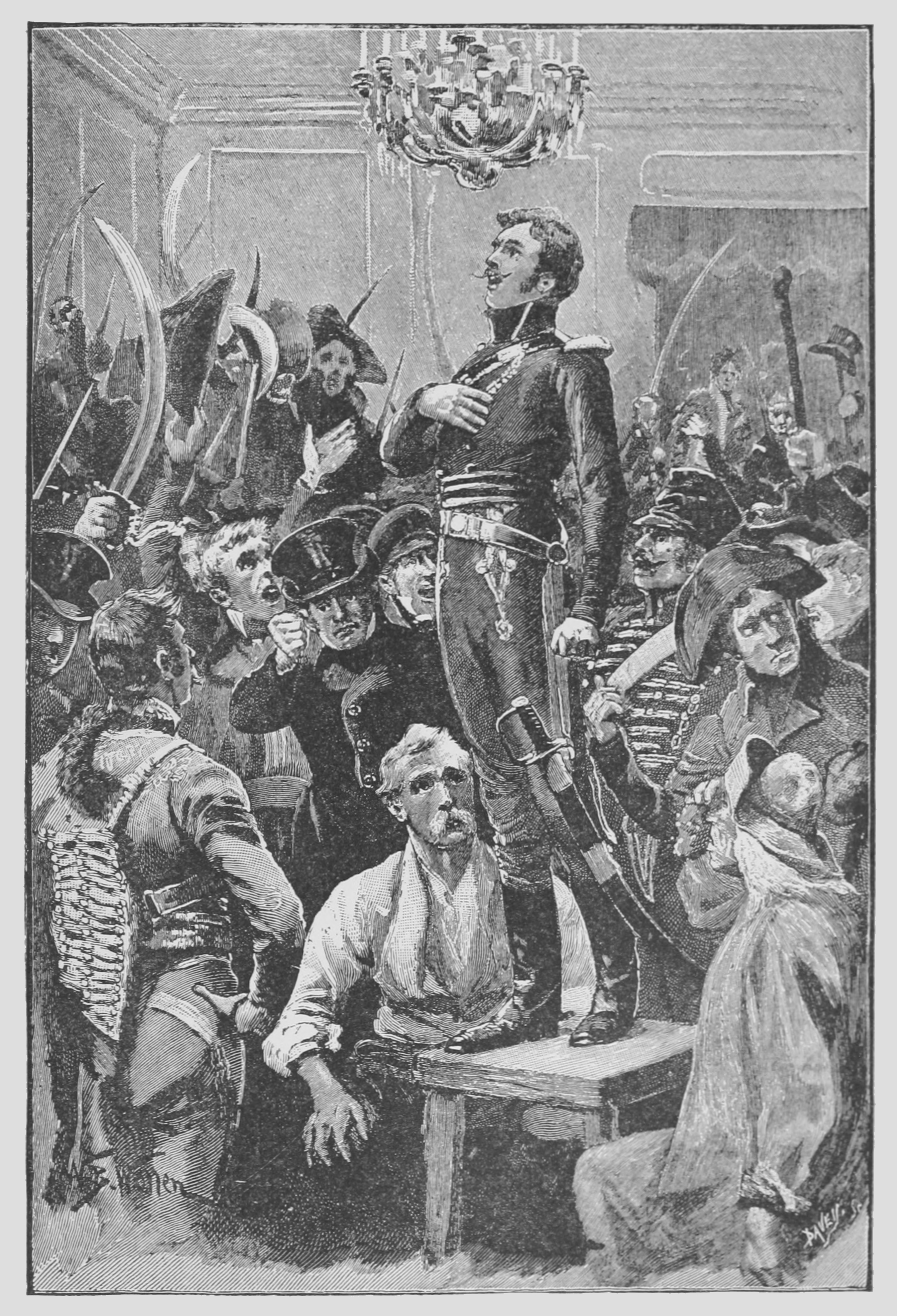 Plate of The Exploits of Brigadier Gerard